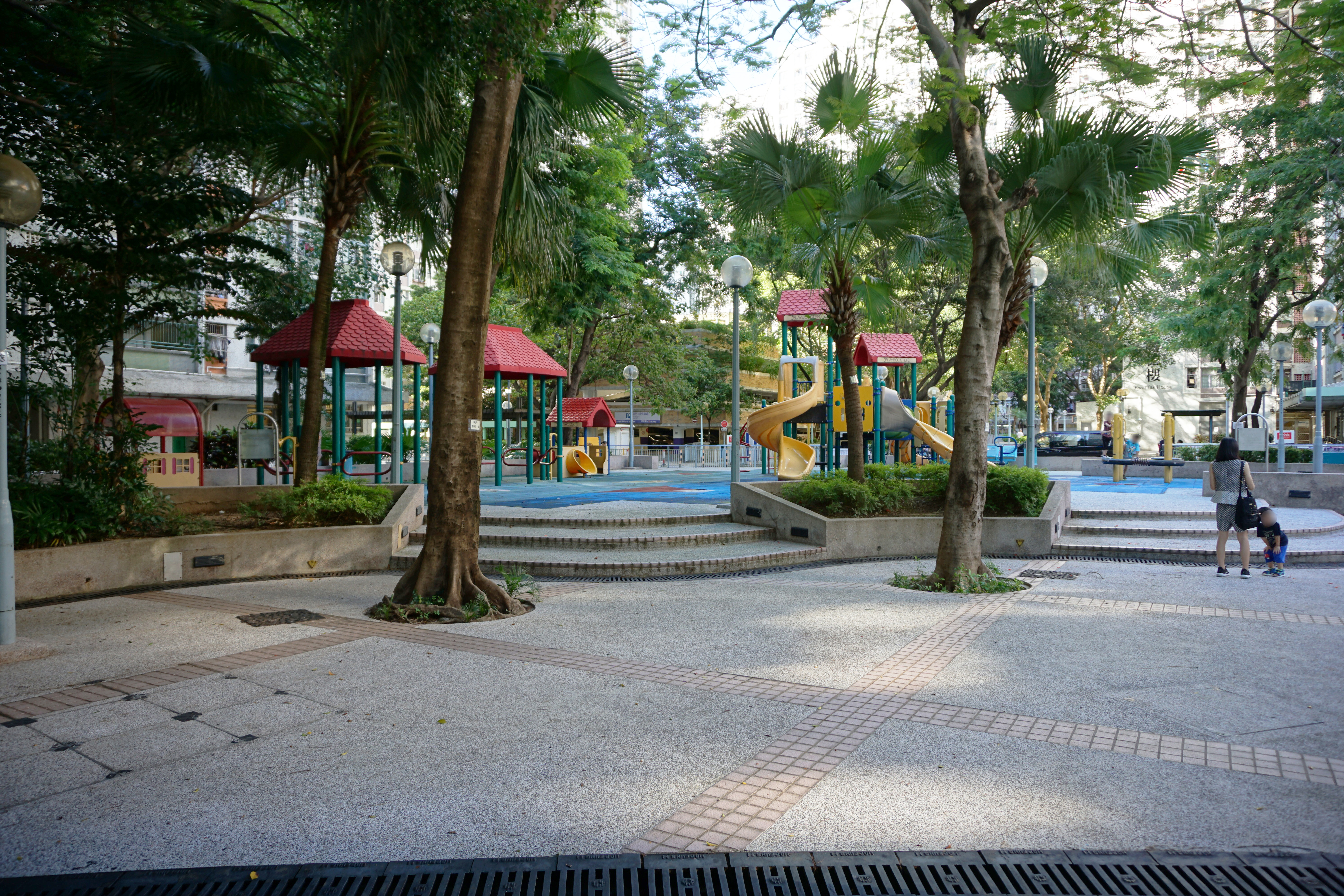 Kwai Fong Estate in Kwai Chung, Hong Kong.